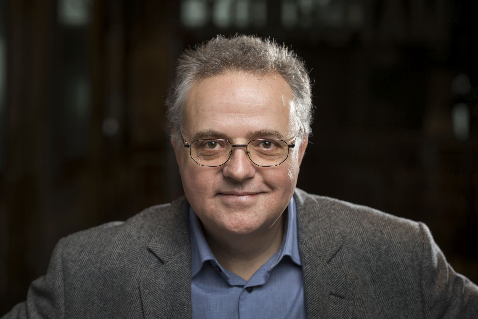 Dominik Landwehr, *1958 Migros-Kulturprozent, Switzerland